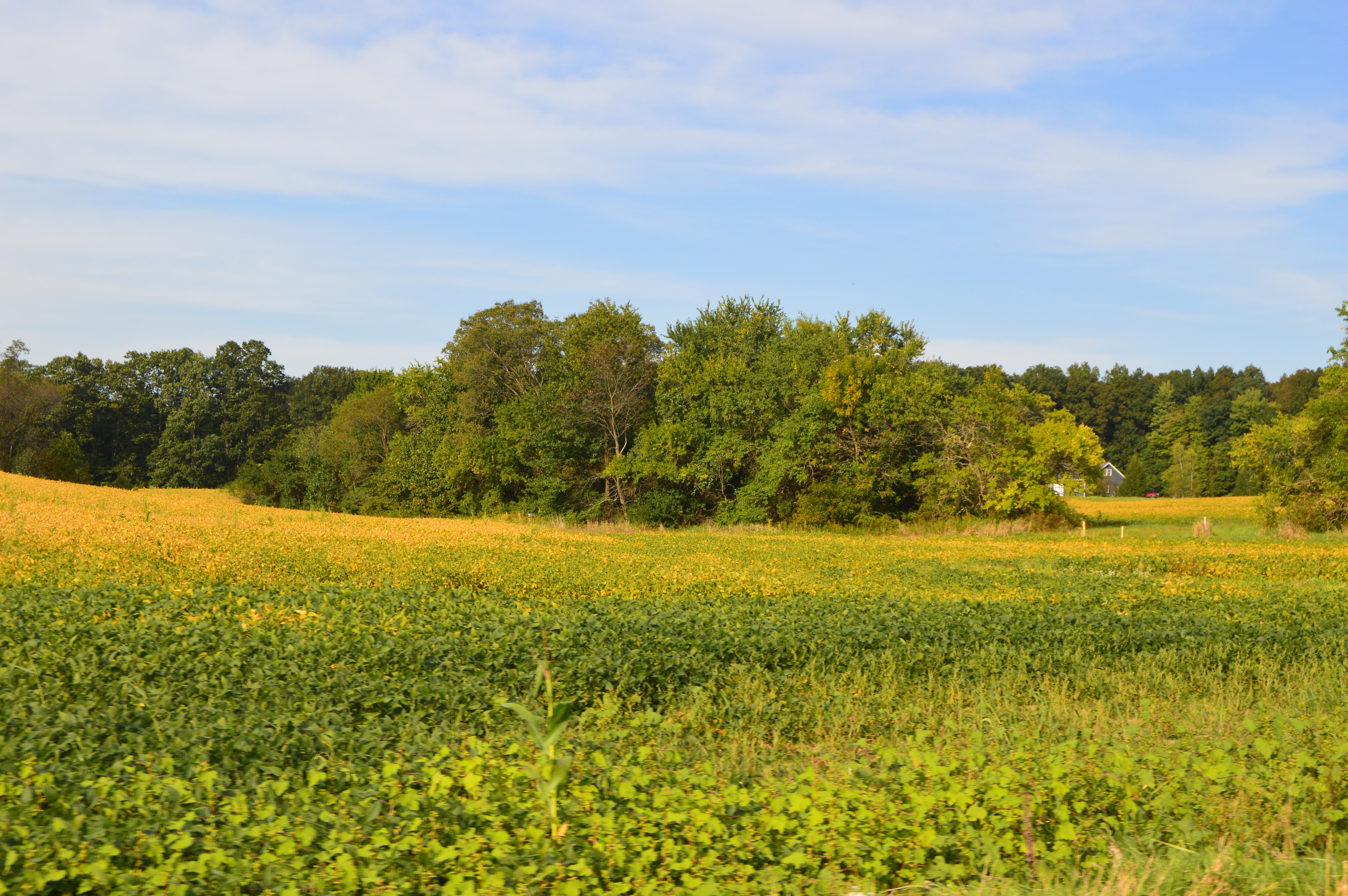 Agricultural scene on the northern side of Wasser Bridge Road, south of Greenville, in Hempfield Township, Mercer County, Pennsylvania, United States.